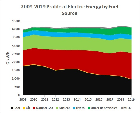 2009-2019 Profile of US Electric Energy by Fuel Source